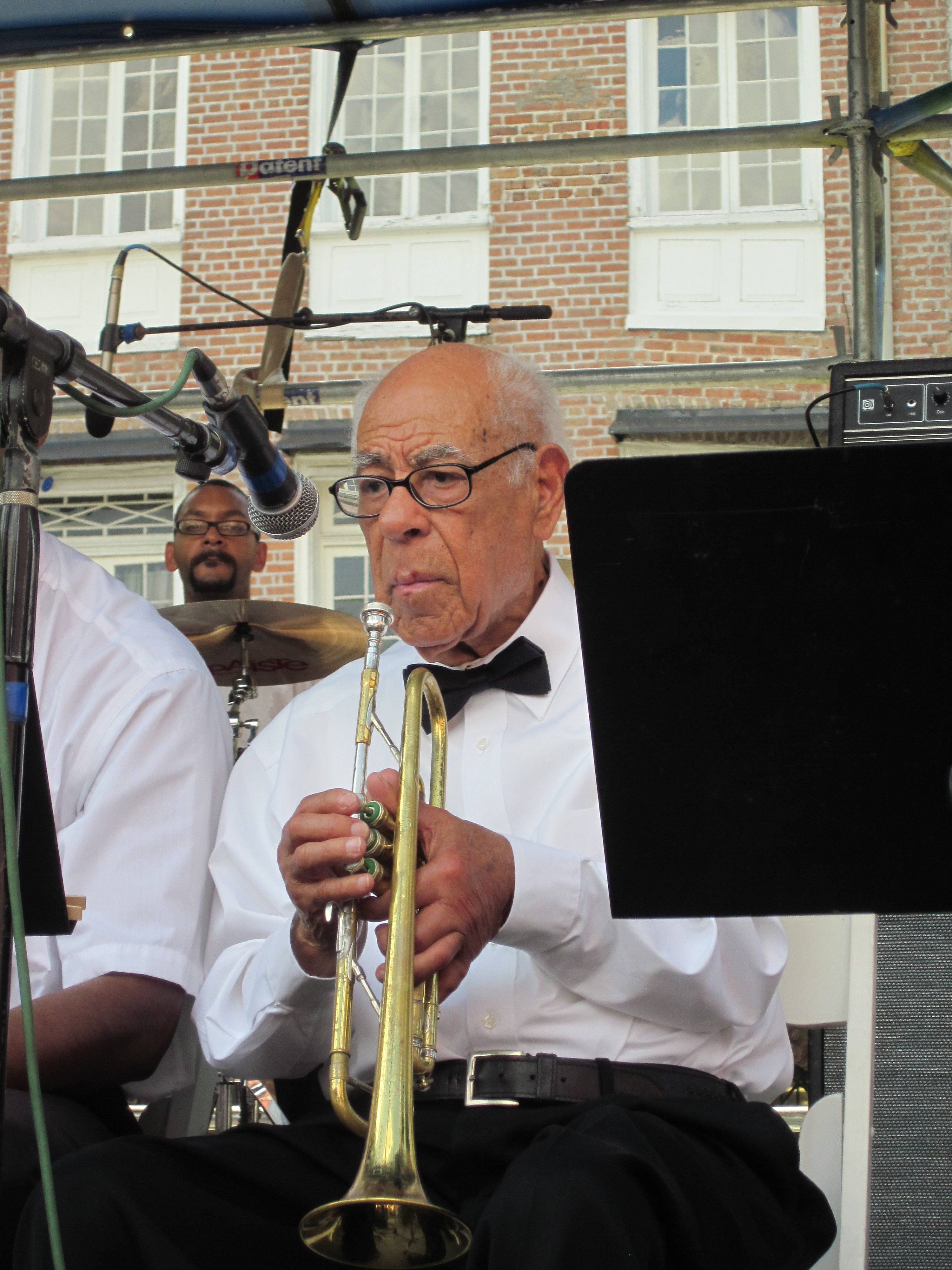 Satchmo SummerFest 2010, French Quarter, New Orleans. Lionel Ferbos with the New Orleans Ragtime Orchestra. The oldest regularly working musicin in New Orleans, Ferbos recently celebrated his 99th birthday. Drummer Jason Marsalis seen in background.